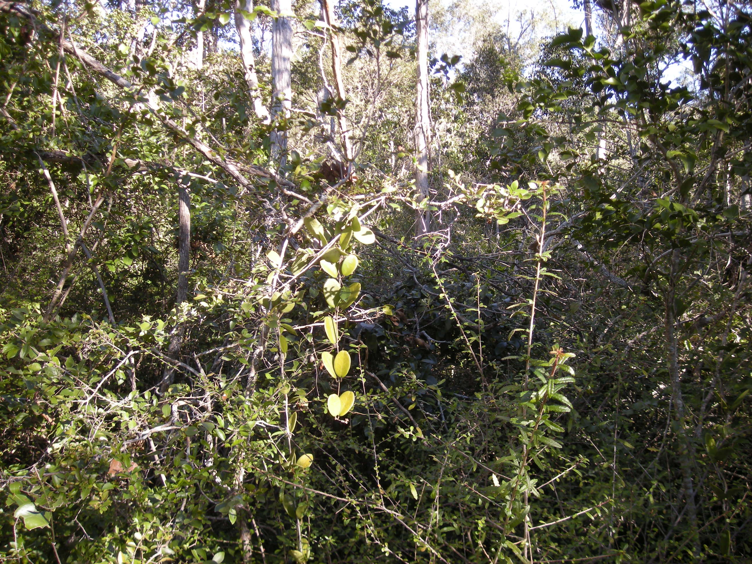 Dry rainforest, Mount Archer National Park, Rockhampton, Queensland.